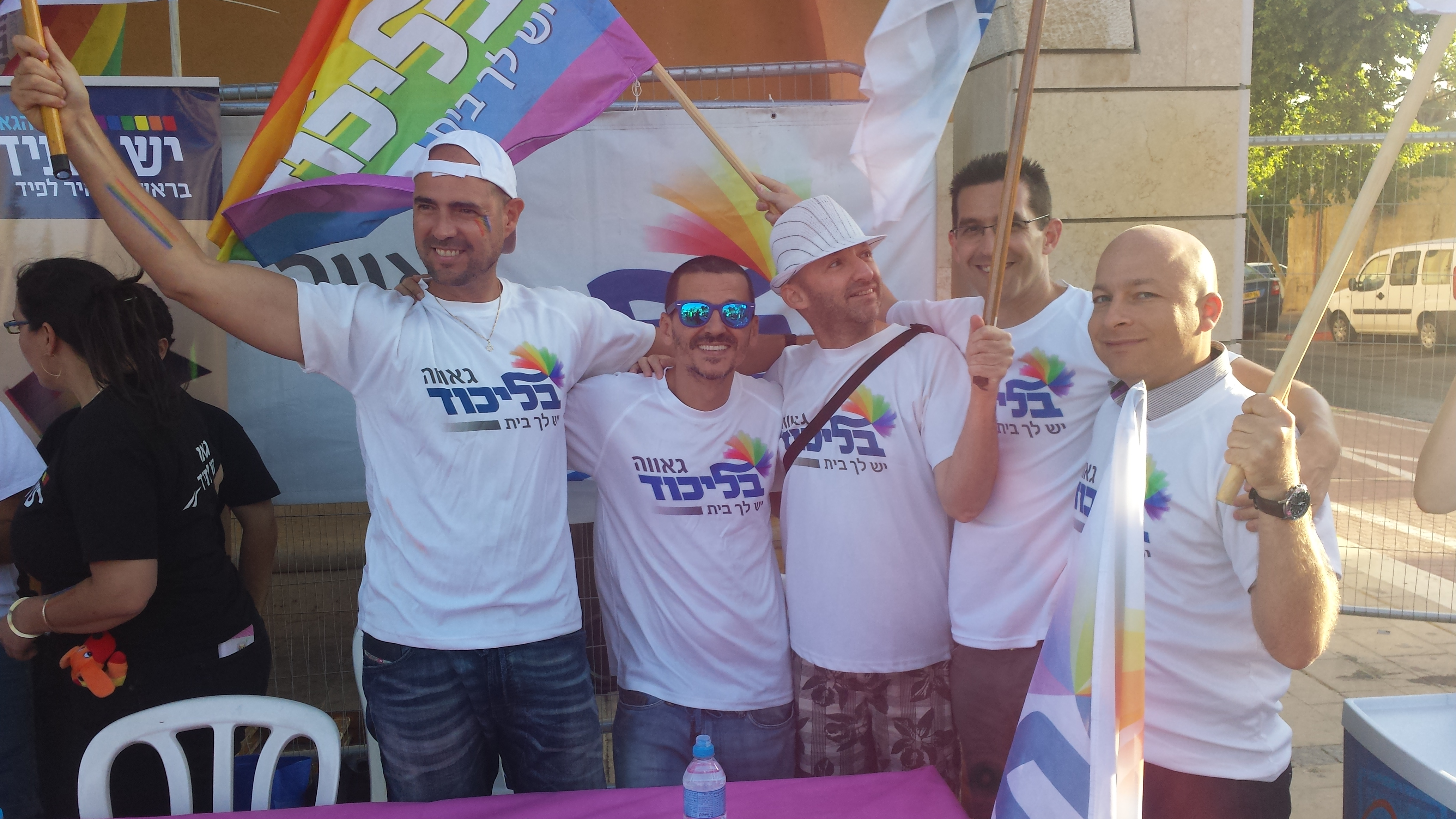 Amir Ohana (Left) fifth Pride event in Be'er Sheva, 2015